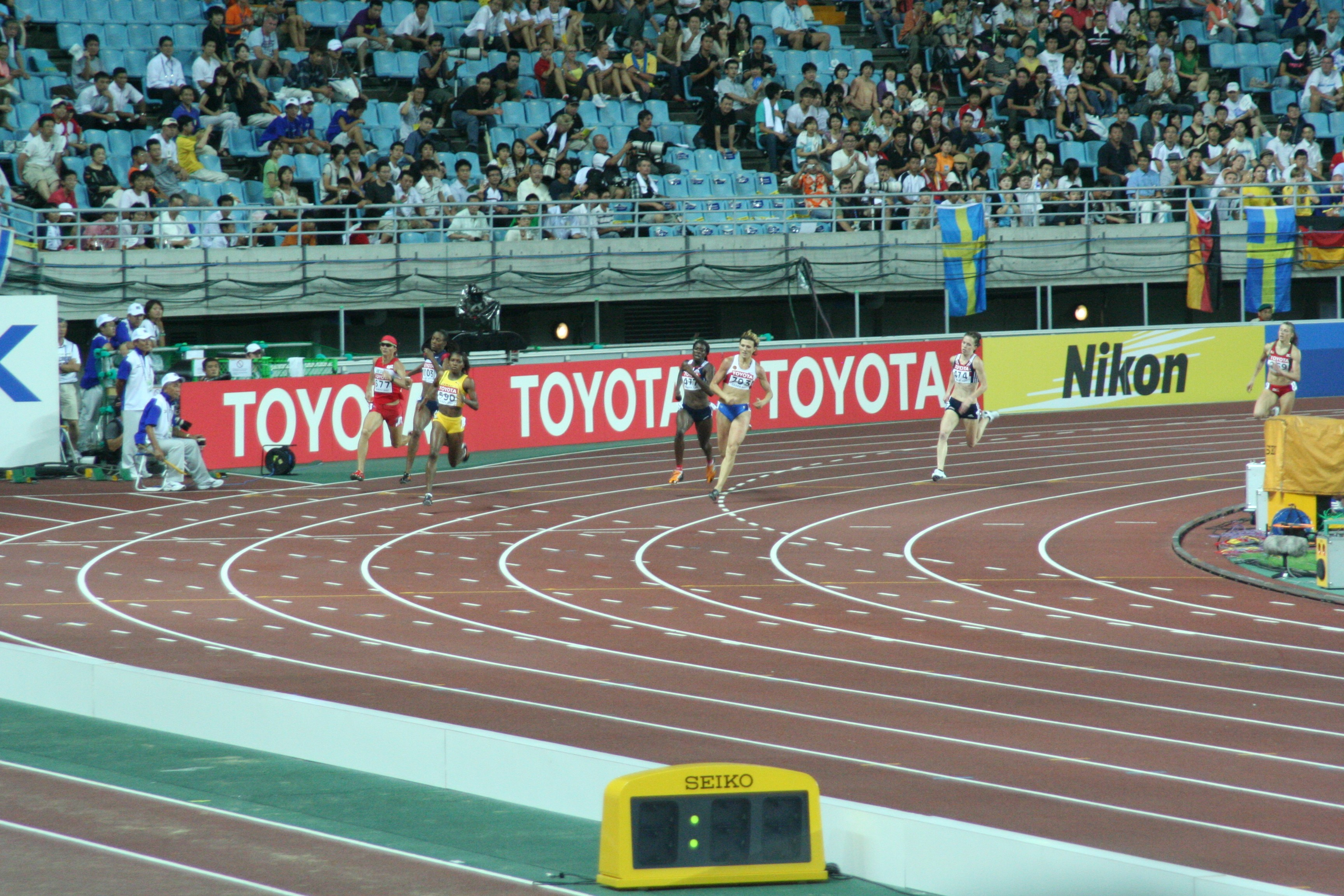 World Athletics Championships 2007 in Osaka - women's 400 metres final: Ana Guevara, DeeDee Trotter, Novlene Williams, Christine Ohuruogu, Natalya Antyukh, Nicola Sanders, Ilona Usovich